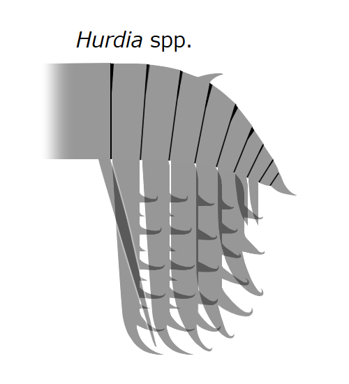 Frontal appendage of the radiodont species Hurdia victoria and Hurdia triangulata.